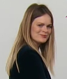 This is a cropped screenshot of Björt Ólafsdóttir from a video dated 25 April 2017.